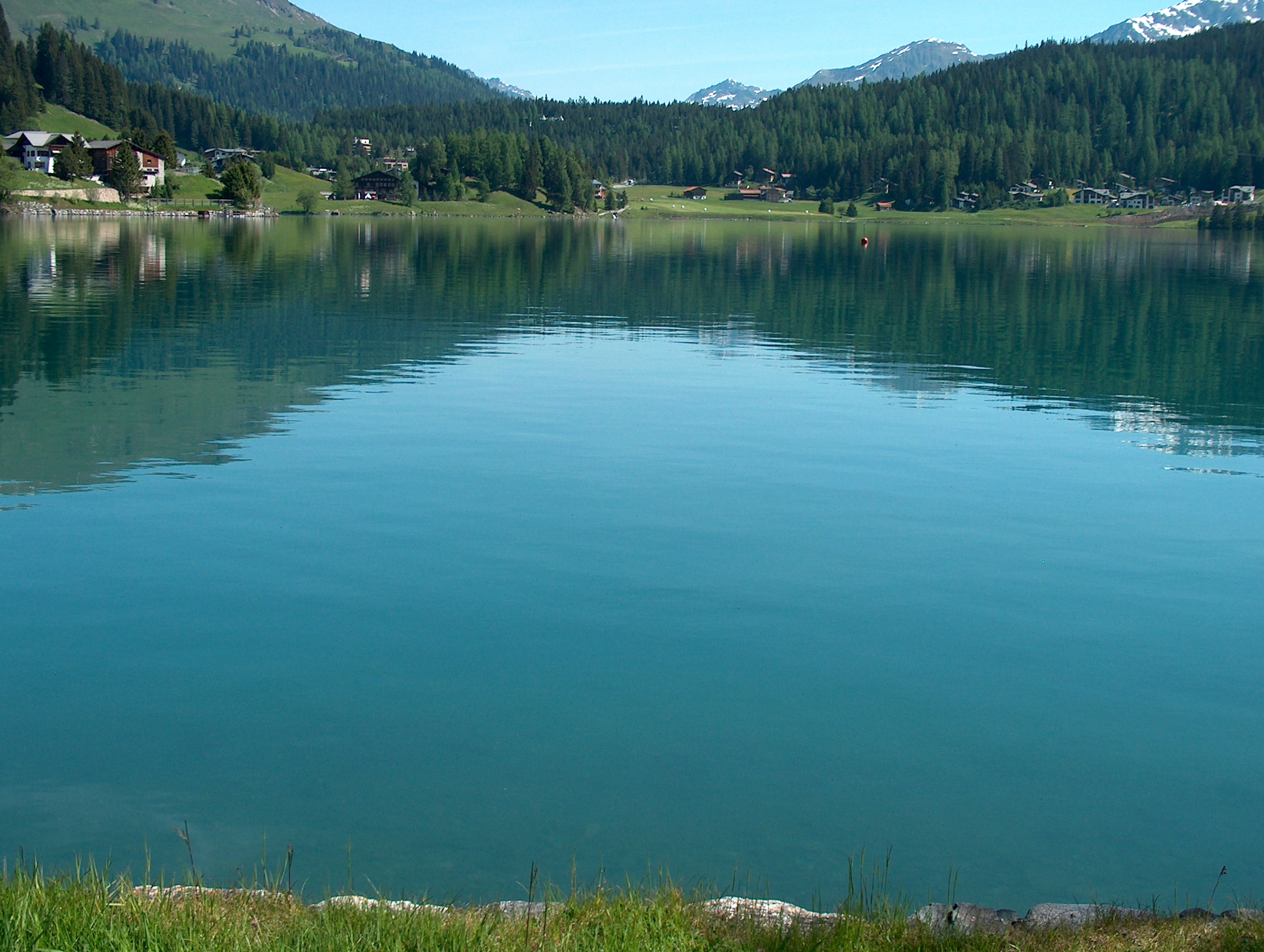 Lake Davos